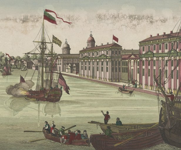 This print from the 1770s, probably made shortly before the start of the American War of Independence, depicts Philadelphia as a European port city, with substantial buildings along a busy waterfront. The caption at the bottom reads, in German and in